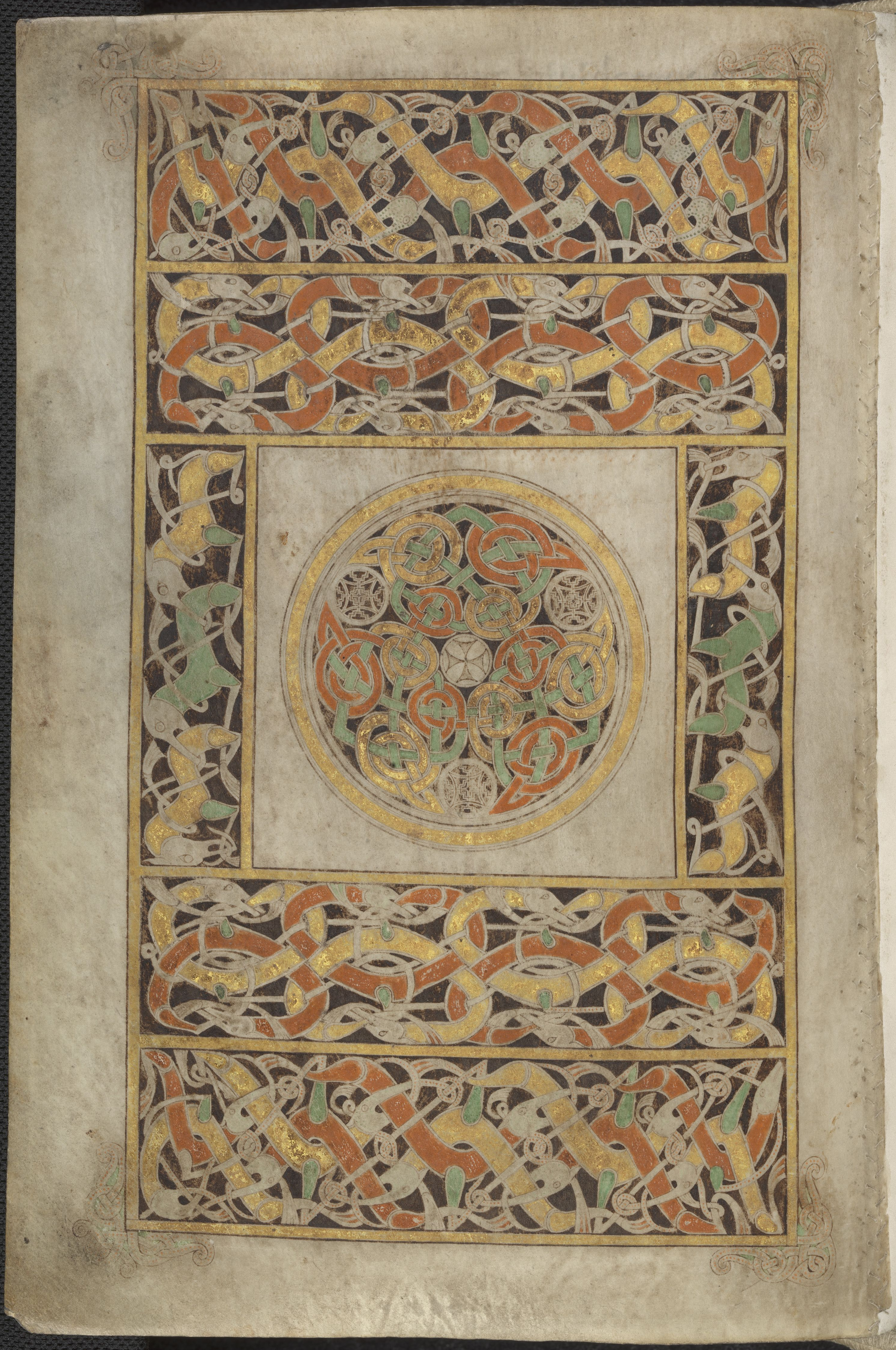 Folio 192v of the Book of Durrow